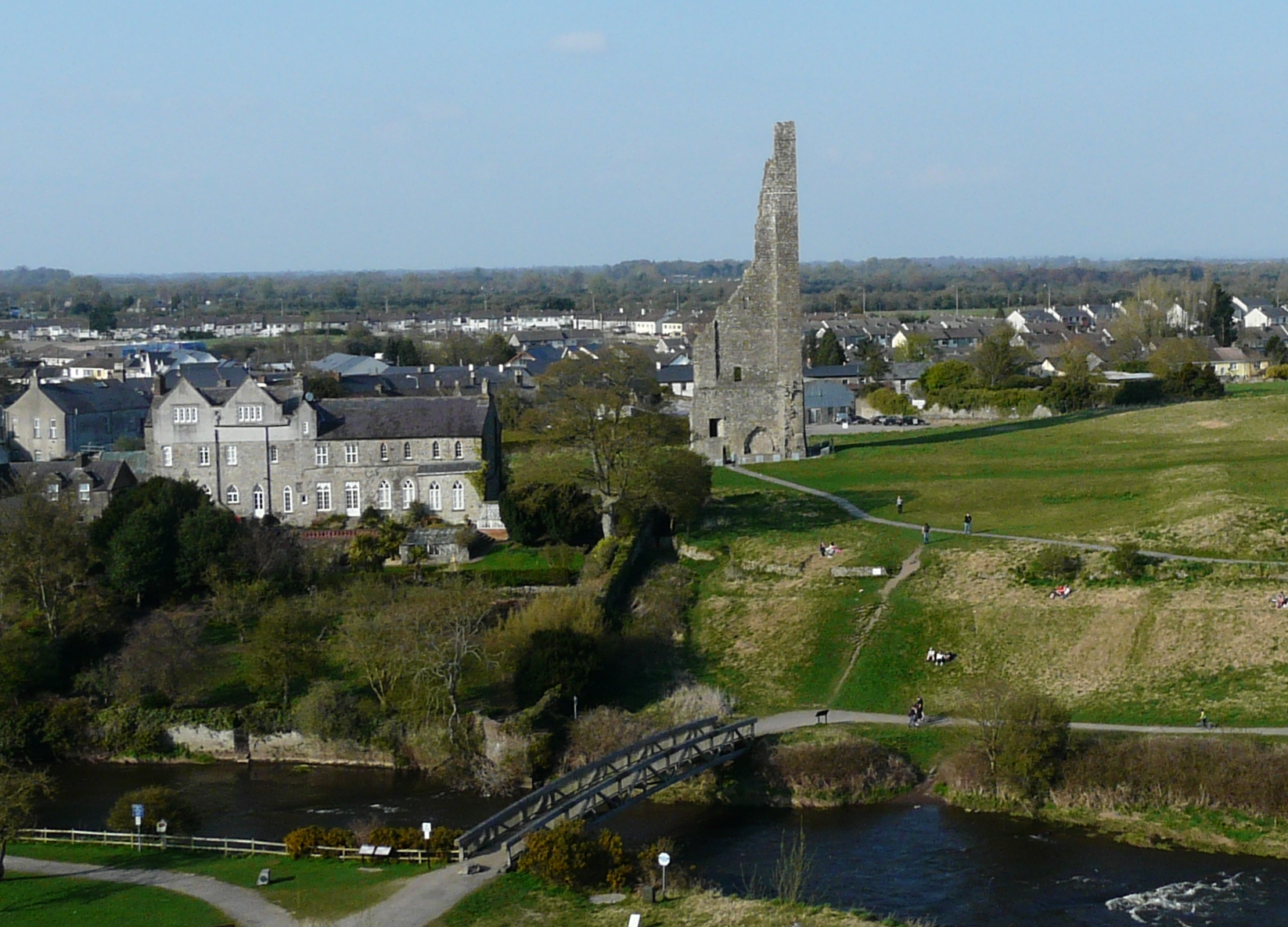 Talbot's Castle and the Yellow Steeple from the top of Trim Castle. Boyne River in the foreground.